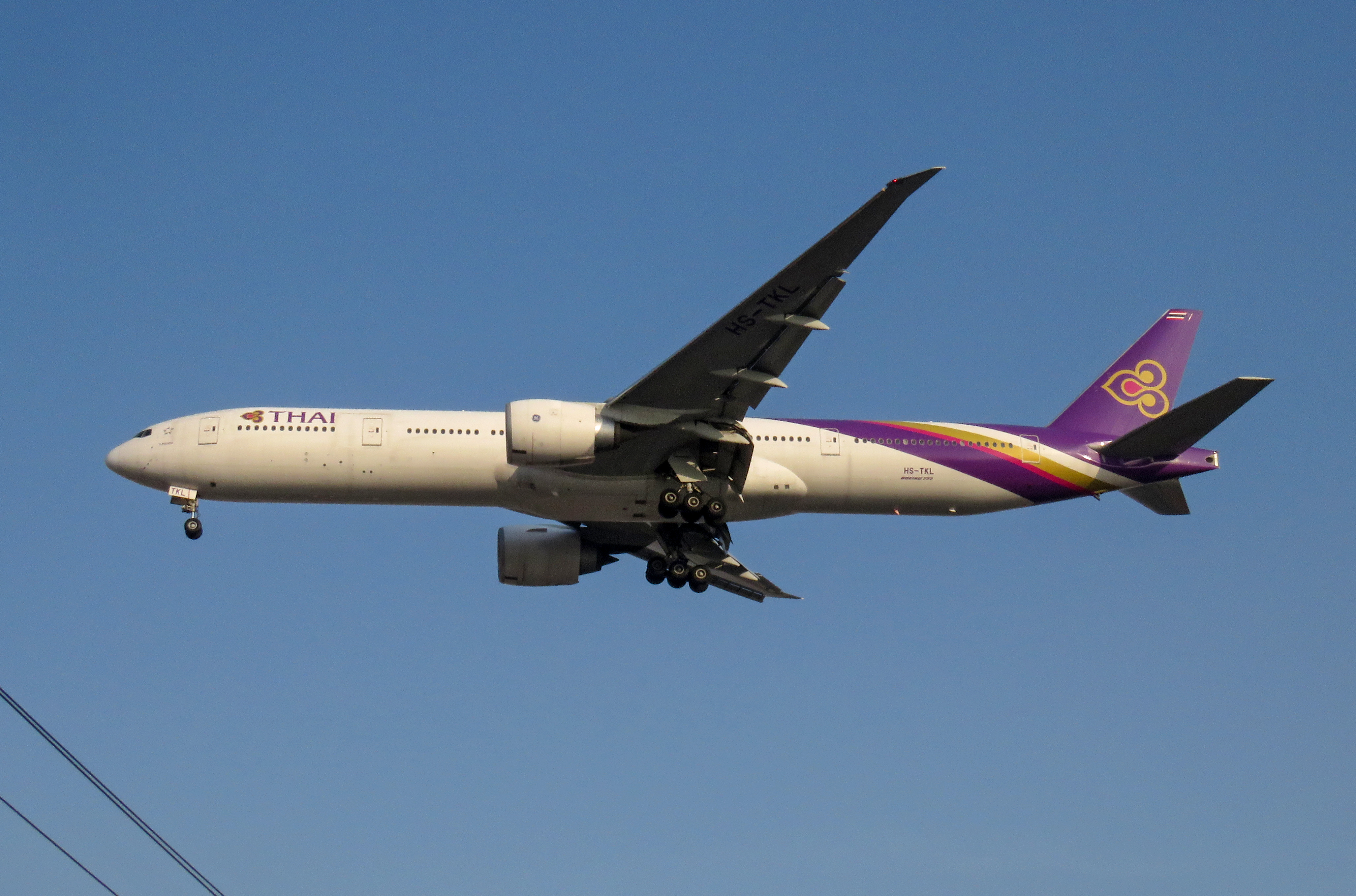 Thai 614 from Bangkok. Taken at Fuqian 2nd St when seeking for an alternative spot for 36L, only to return to Tianzhu Kindergarten...